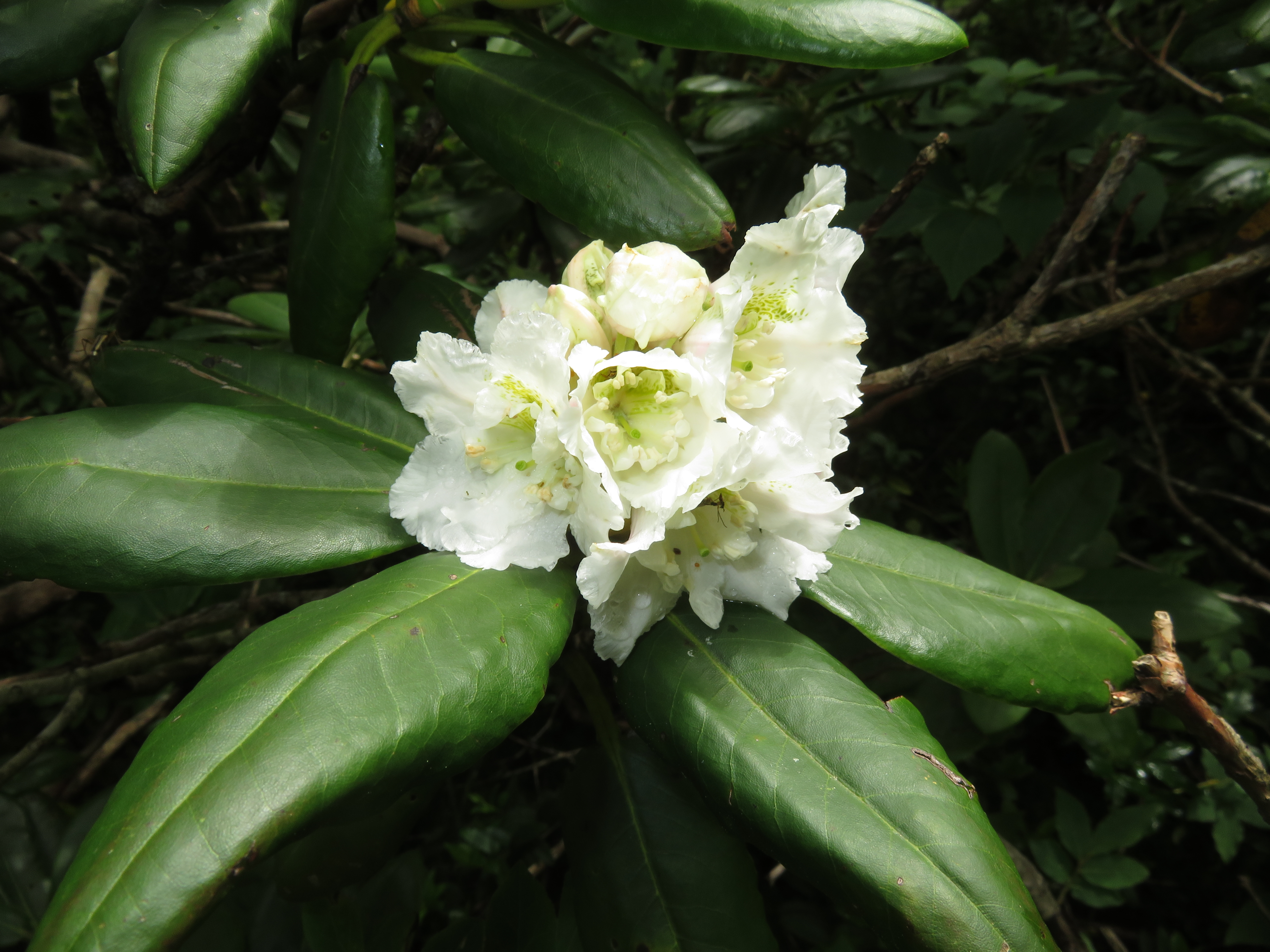 Rhododendron brachycarpum f. nemotoanum, Mount Minowa, Fukushima pref., Japan